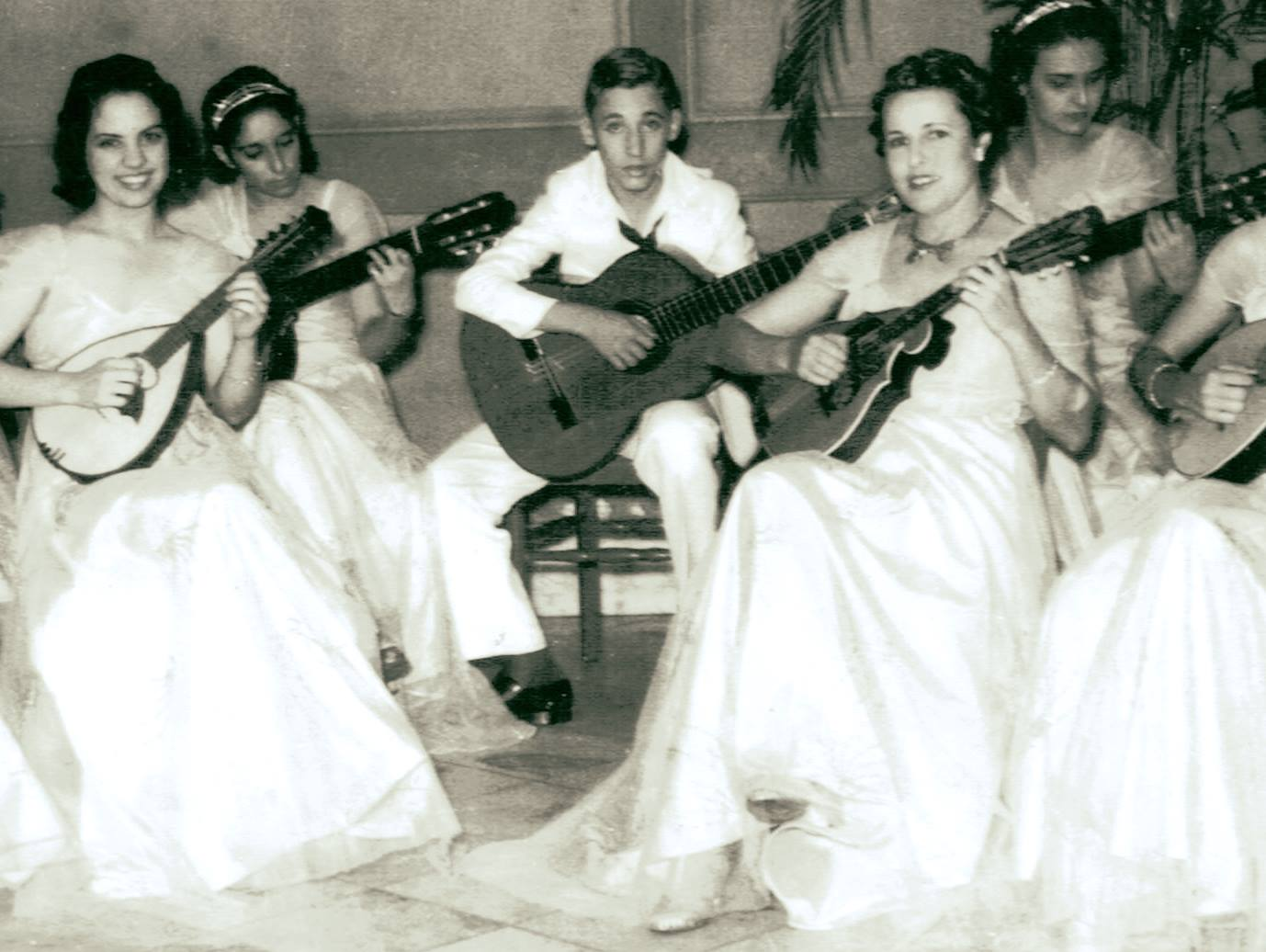 Picture of renown Cuban guitarist Juan Antonio Mercadal